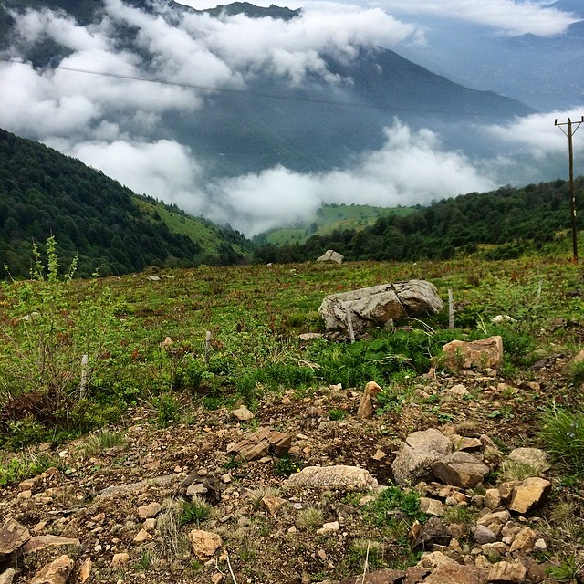 nature #turkey #trabzon #uzongol #beauty #sky #sultan #cloud